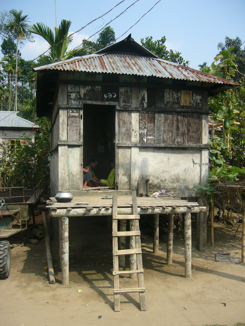 Authour: Shahnoor Habib Munmun